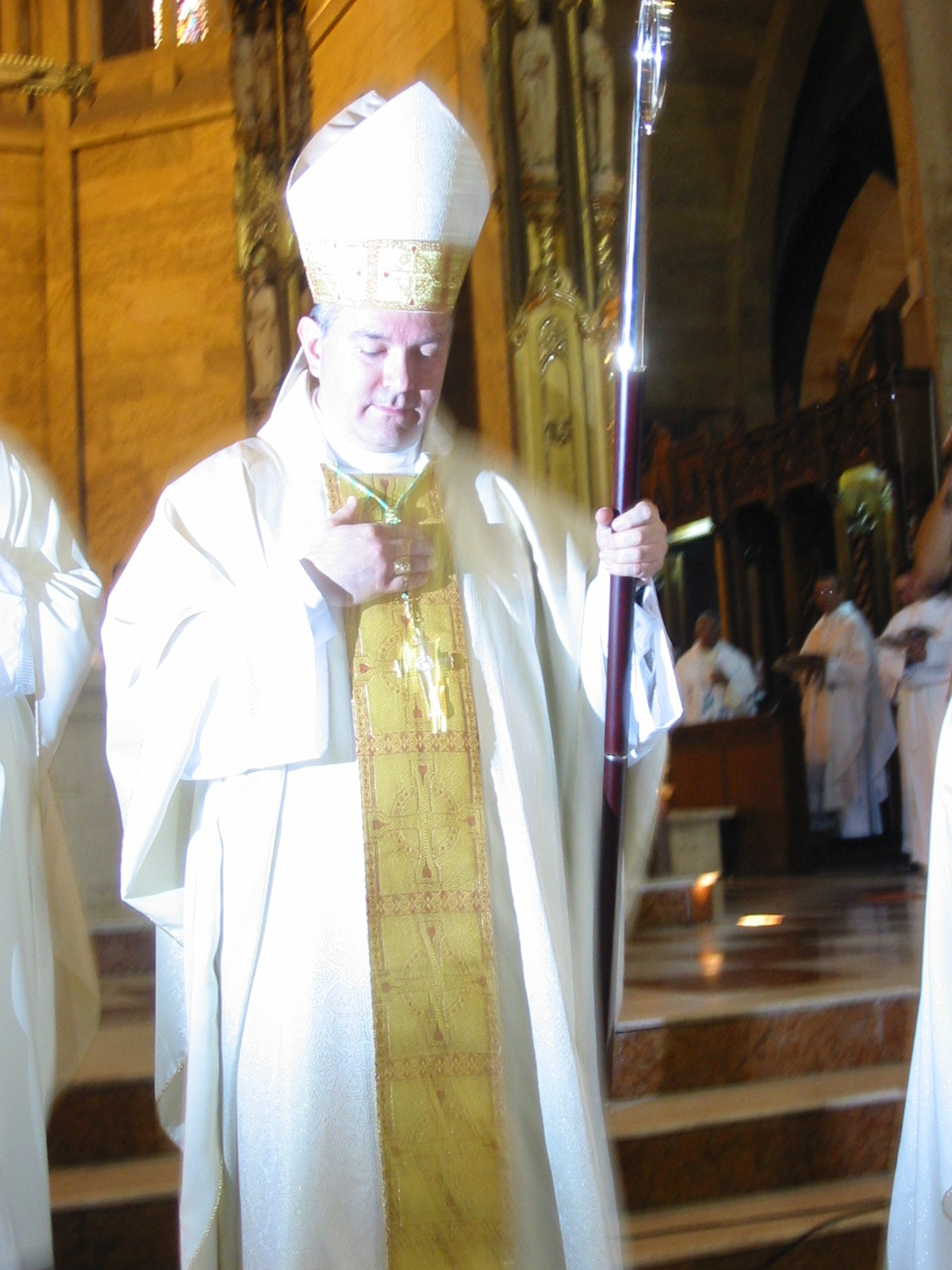 José Miguel Gómez Rodríguez at his episcopal ordination in Manizales, 5 February 2005